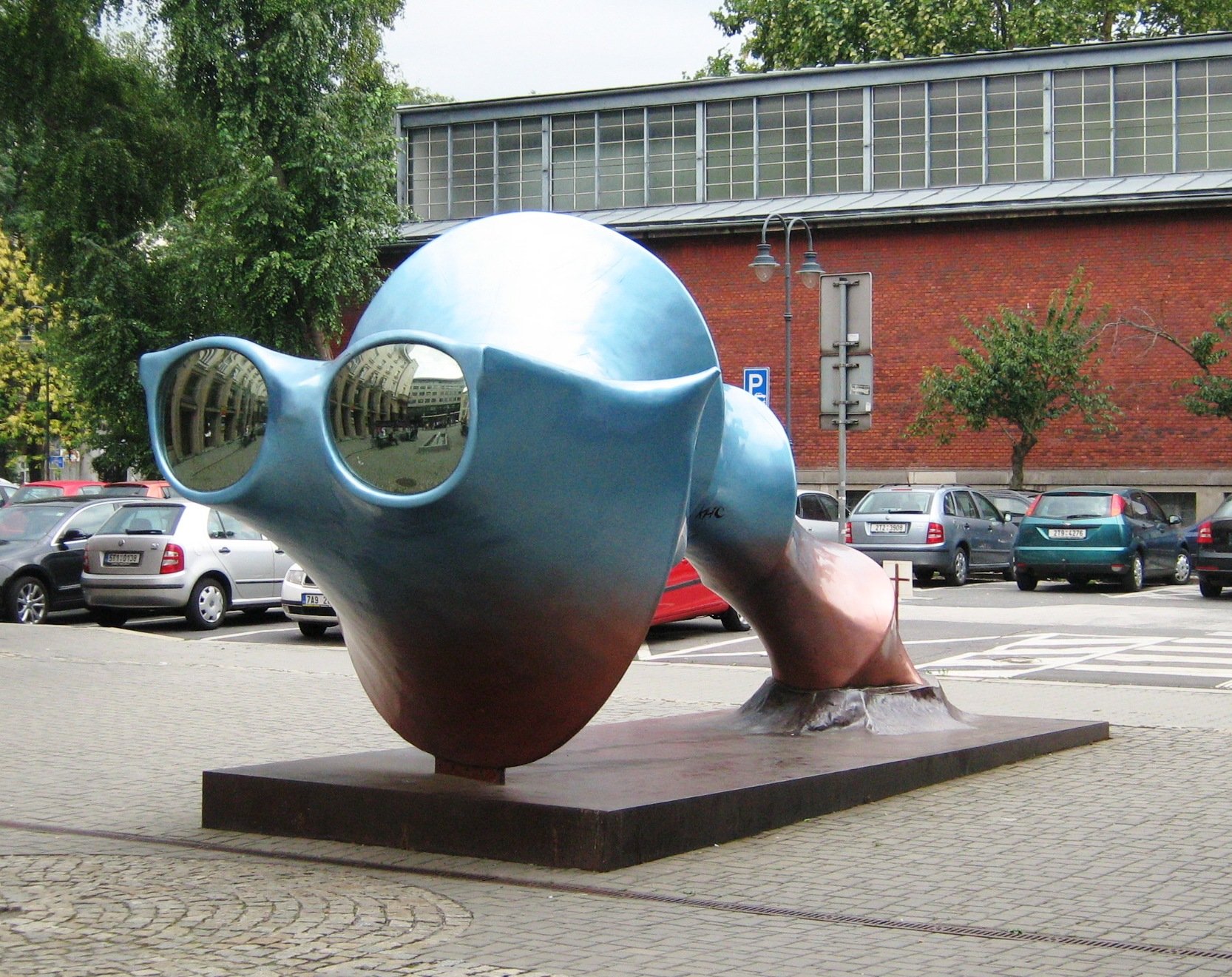 Lukáš Rittstein sculpture Úsvit in front of art galery in Ostrava